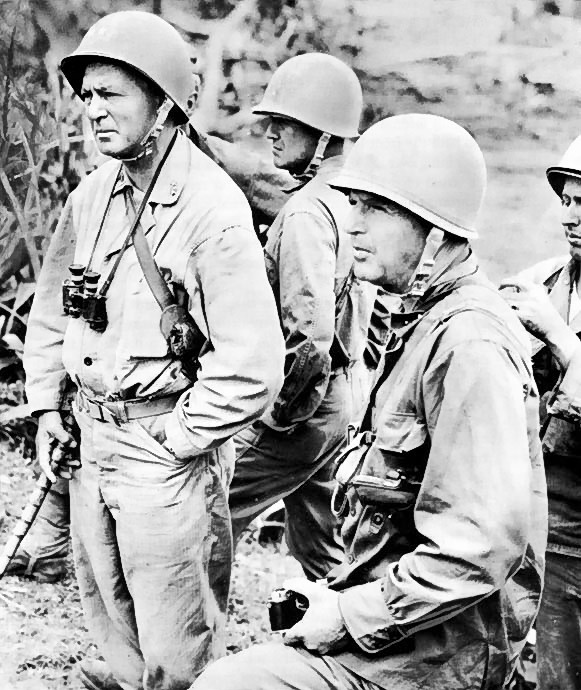 Simon B. Buckner, Commanding General, Tenth Army (foreground), holding camera, photographed while observing action on the Marine front during the latter part of the campaign. With him, holding walking stick, is Major General Lemuel C. Shepperd, Jr., Commanding General, 6th Marine Division.